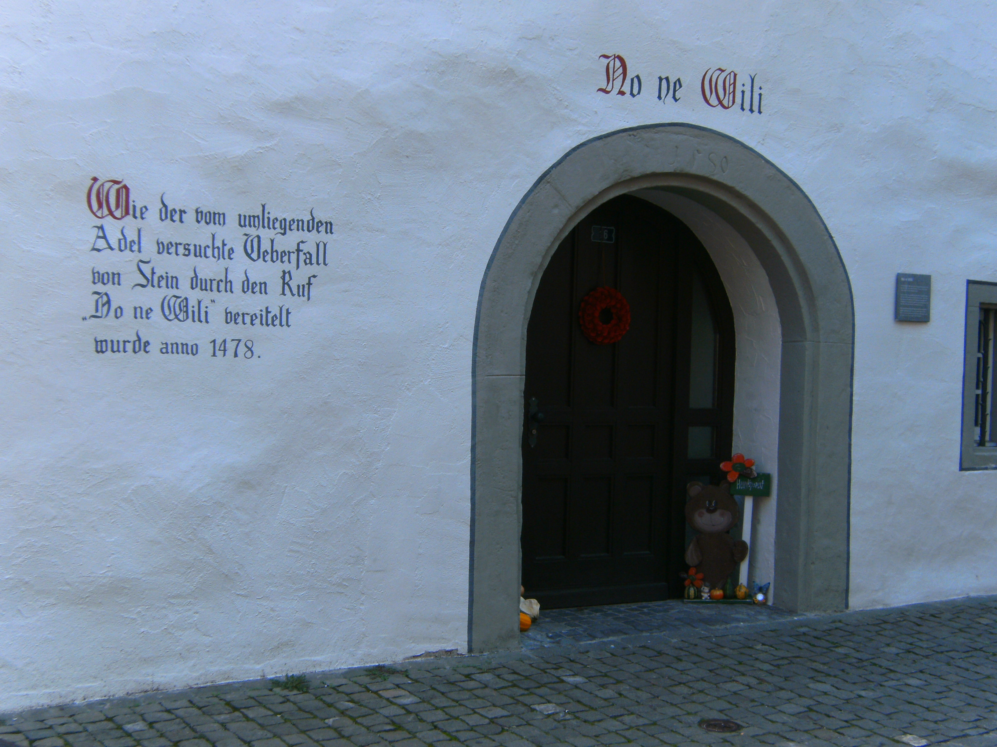 Stein am Rhein, Switzerland, Bärengass 6: Haus no e Wili (House wait a little bit).